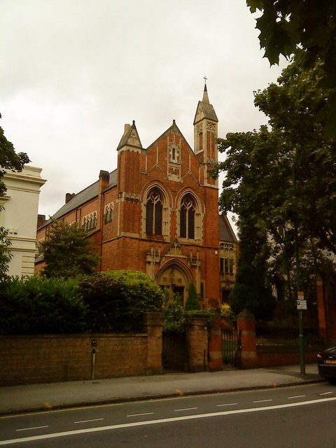 Orthodox Church, formerly Congregational, Derby Road. SK5640 :: Orthodox Church, formerly Congregational, Derby Road, near to Lenton, Nottingham, Great Britain